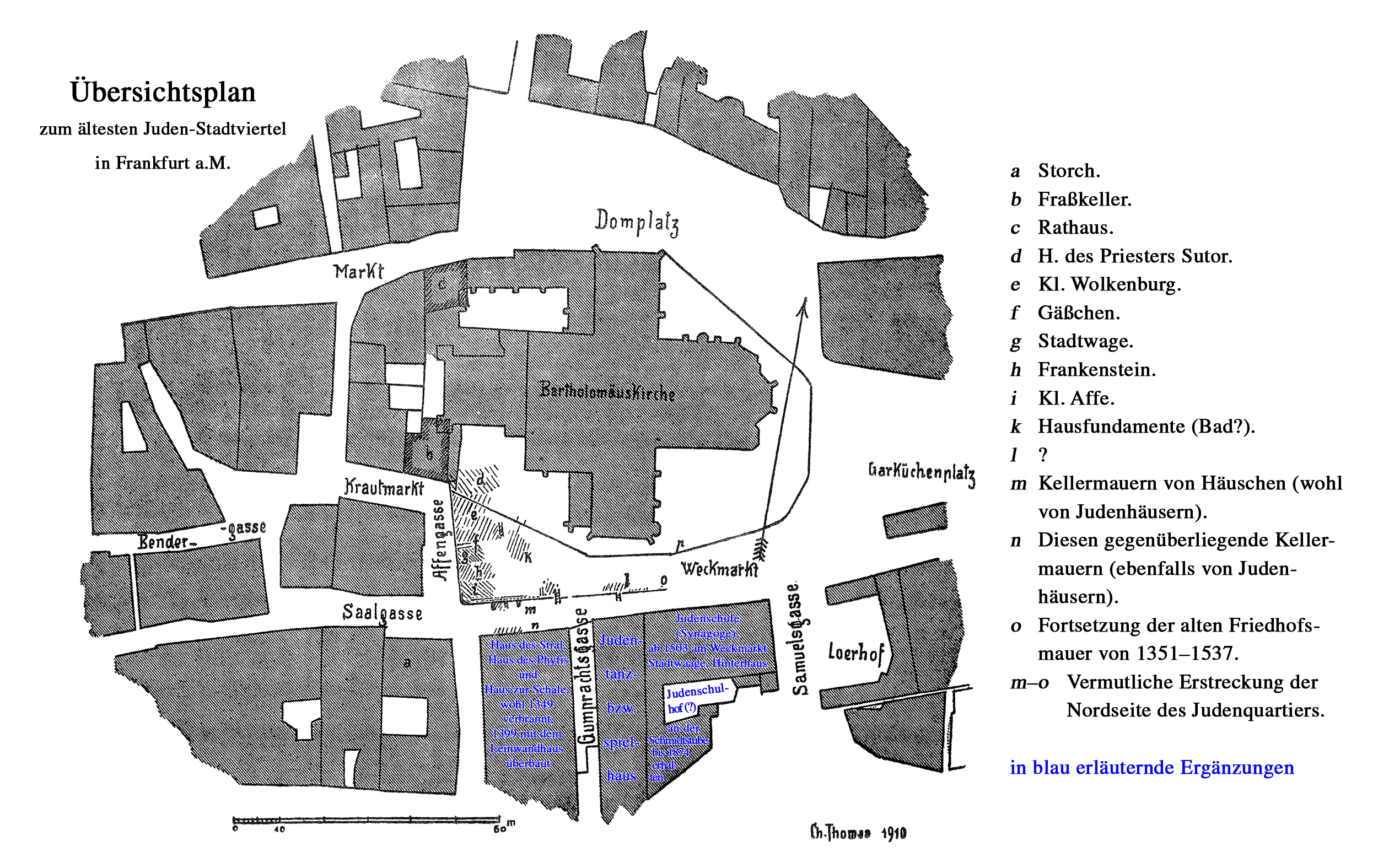 Frankfurt on the Main: General plan of the oldest jewish quarter to the south of the cathedral